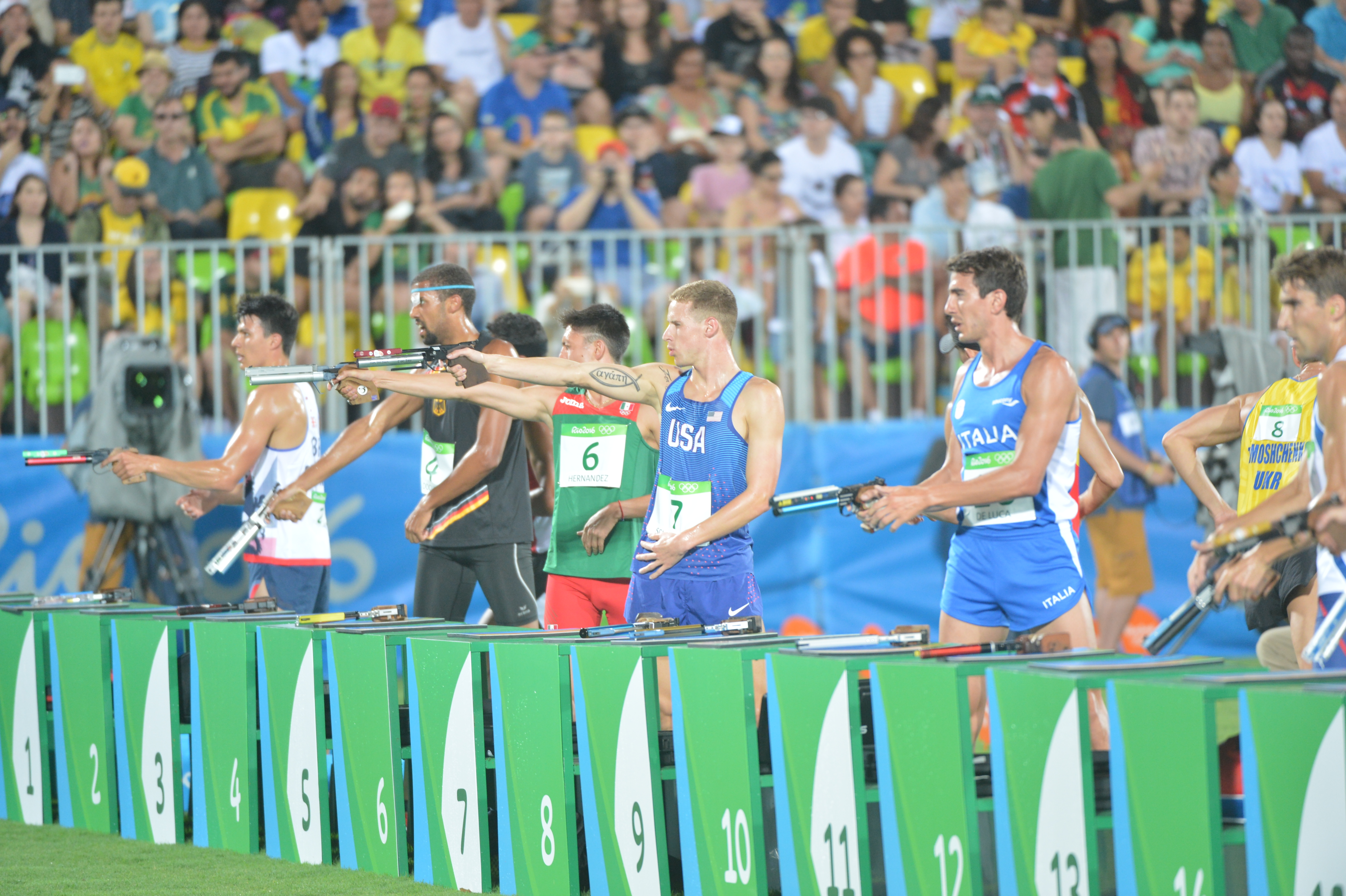 Sgt. Nathan Schrimsher of the U.S. Army World Class Athlete Program finishes 11th in the men's Modern Pentathlon event Aug. 20 at the Rio Olympic Games in Rio de Janeiro. U.S. Army photo by Tim Hipps, IMCOM Public Affairs #SoldierOlympians #ArmyOlympians #ArmyTeam #TeamUSA #RoadToRio #ArmyStrong #GoArmy #WCAP #ArmyWCAP